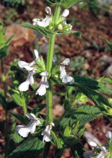 Stachys plumosa